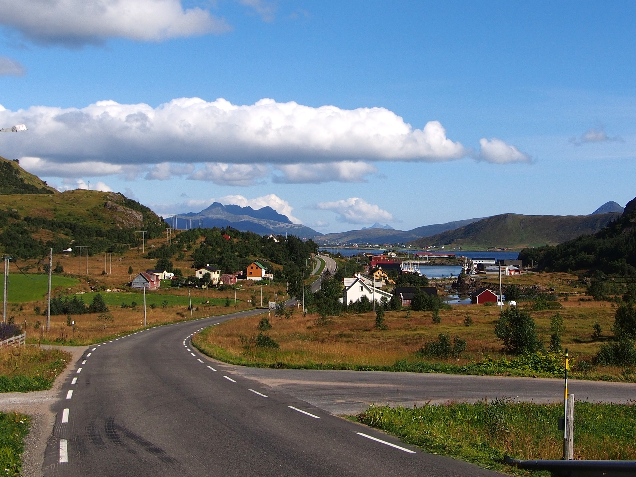 Village of Napp - 2013.08